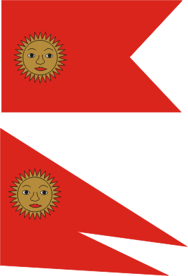 Mewar, royal standart pre 1874, two versions